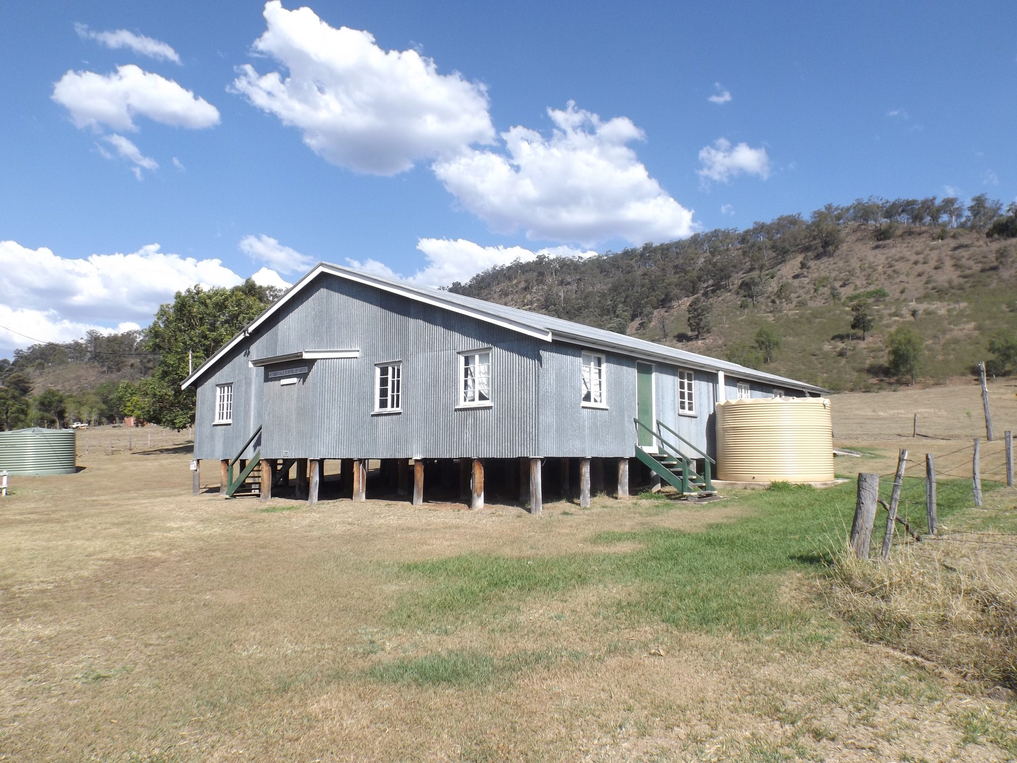 Photo of the School of Arts hall at Fordsdale, Queensland, Australia.